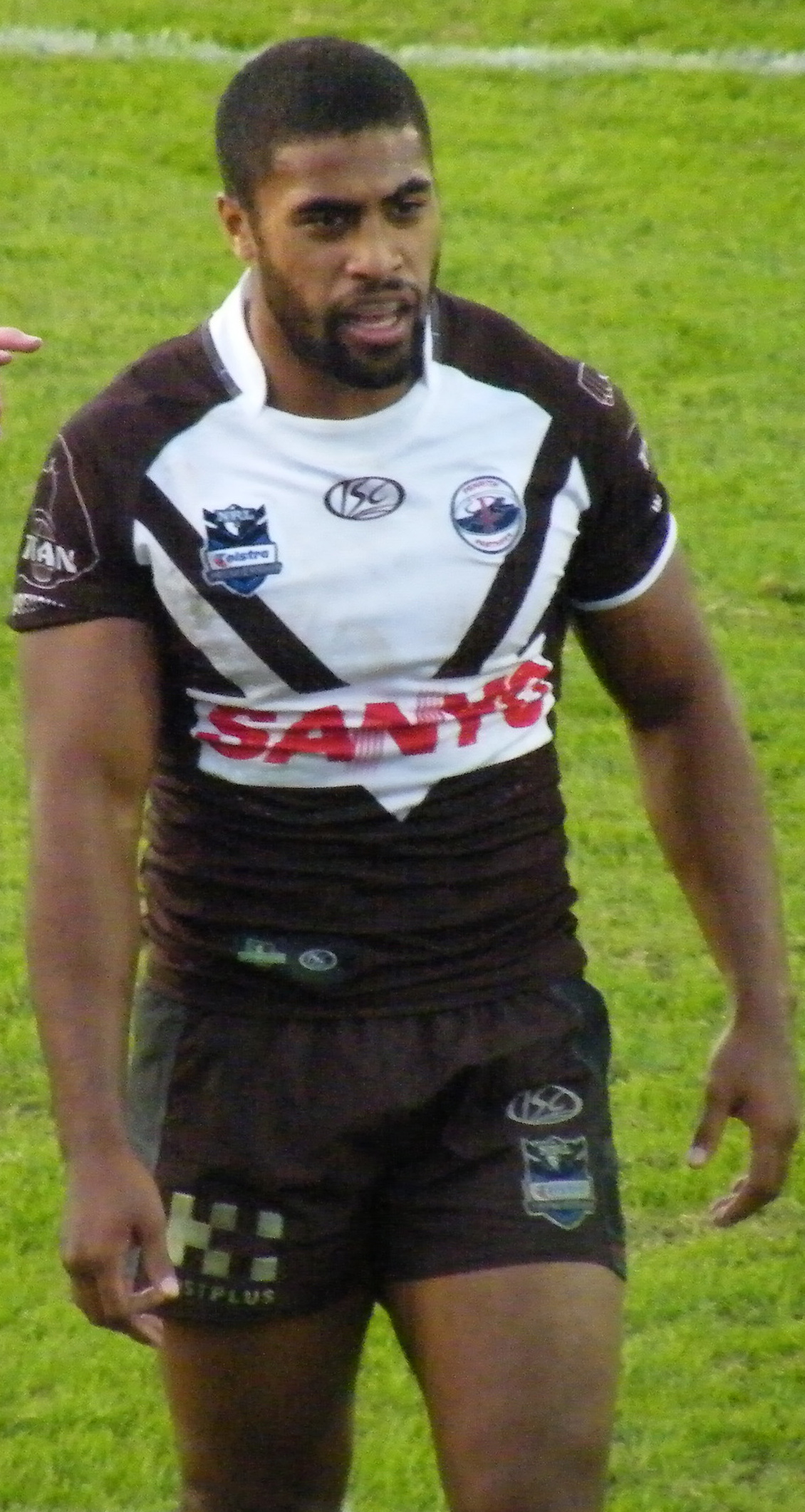 Michael Jennings of the Penrith Panthers RLFC